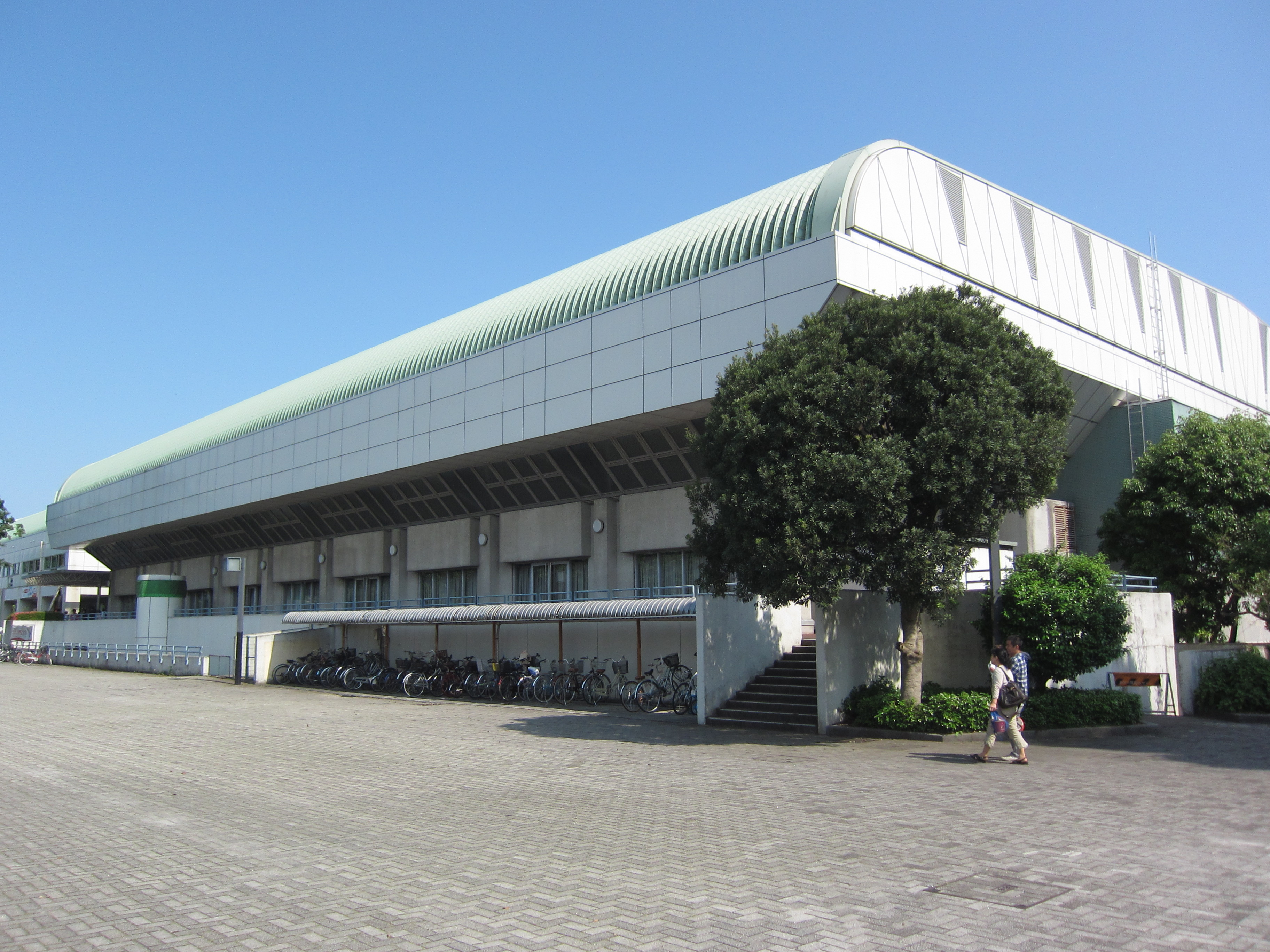 Kyodonomori gymnasium